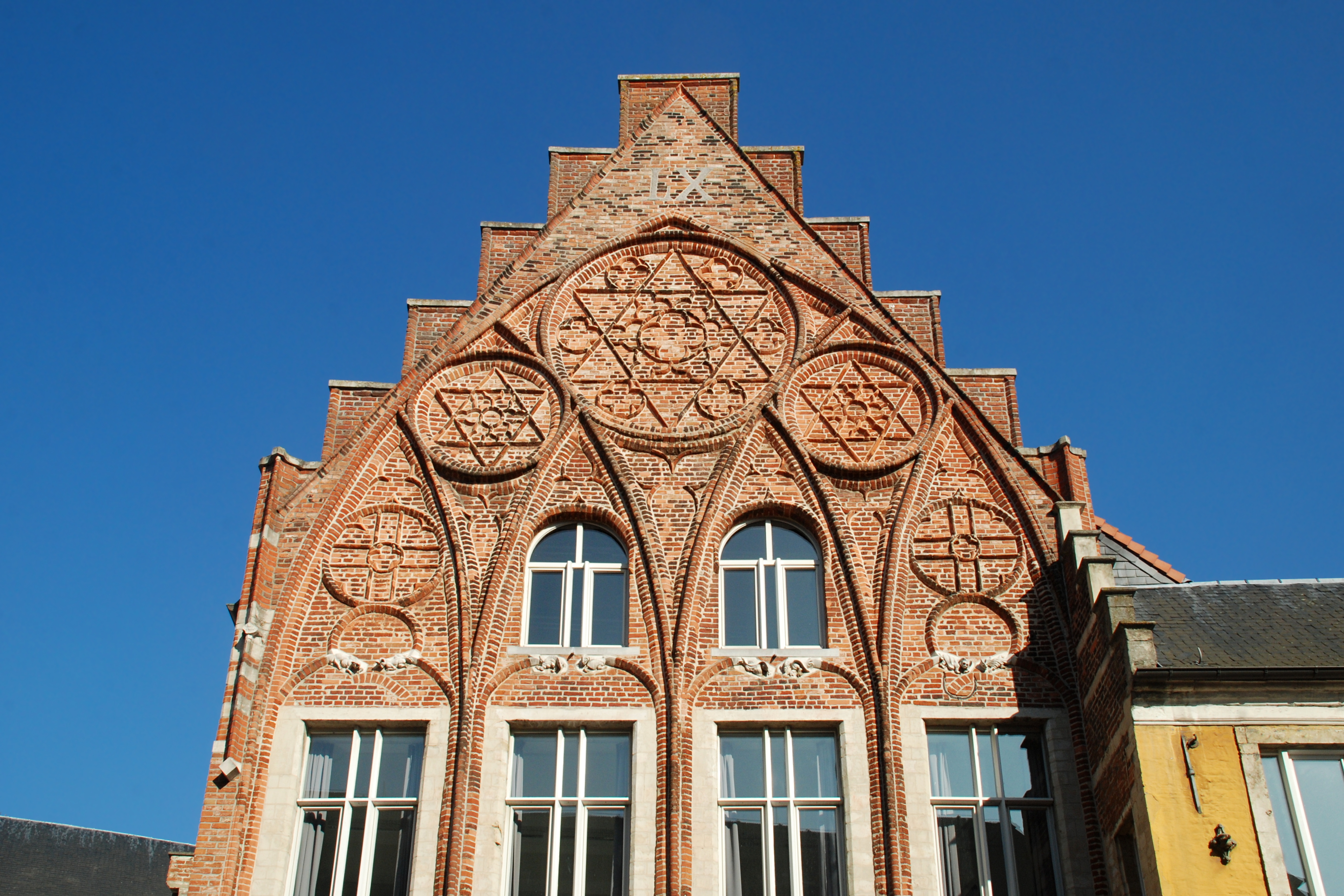 Belgium - Leuven - House van 't Sestich